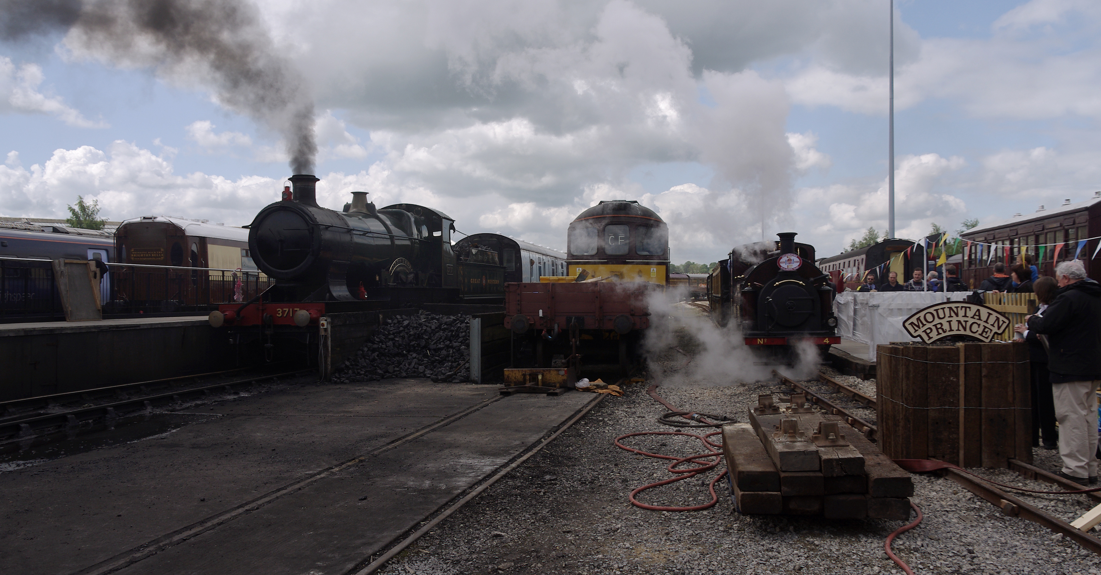 Main line steam loco 3717 "City of Truro" alongside class 33 diesel loco 33207 and Ffestiniog Railway steam locomotive "Palmerston" at Railfest 2012.